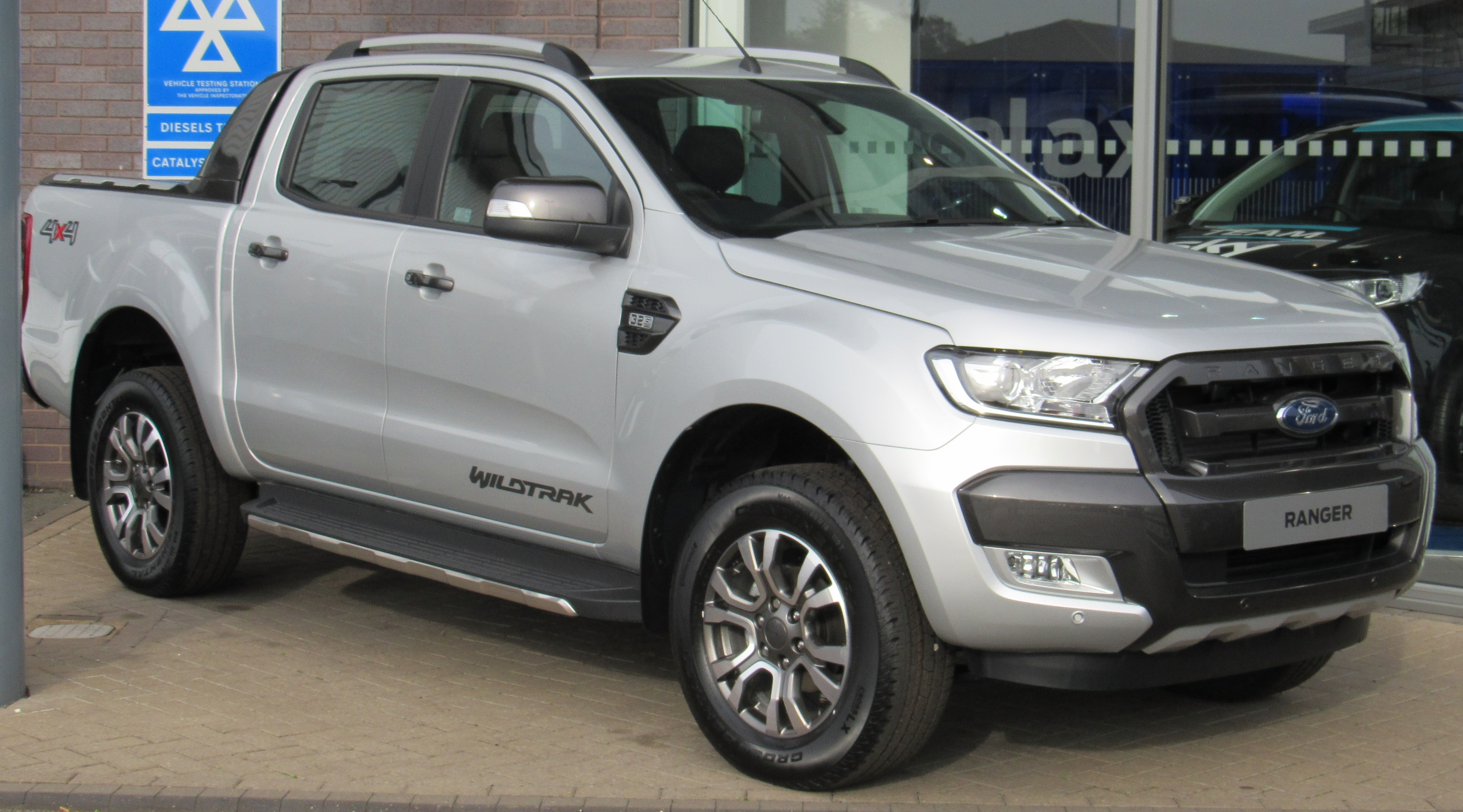 2017 Ford Ranger Wildtrak Taken in Leamington Spa